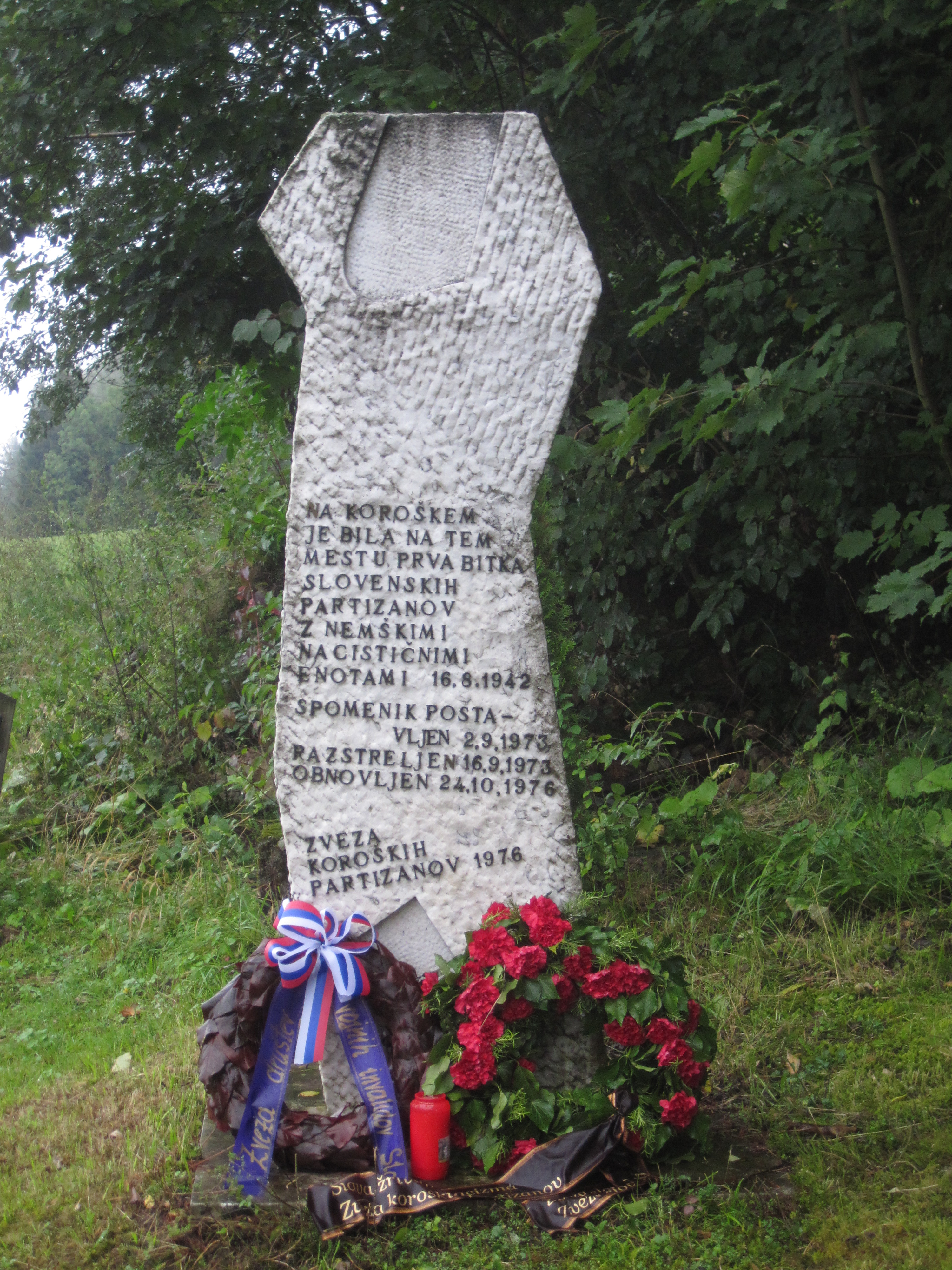 Memorial for the first military successfull partisan action during WW II on the territory of the German Reich on 16. August 1942 in the location of Robeže / Robesch in Carinthia/Austria.